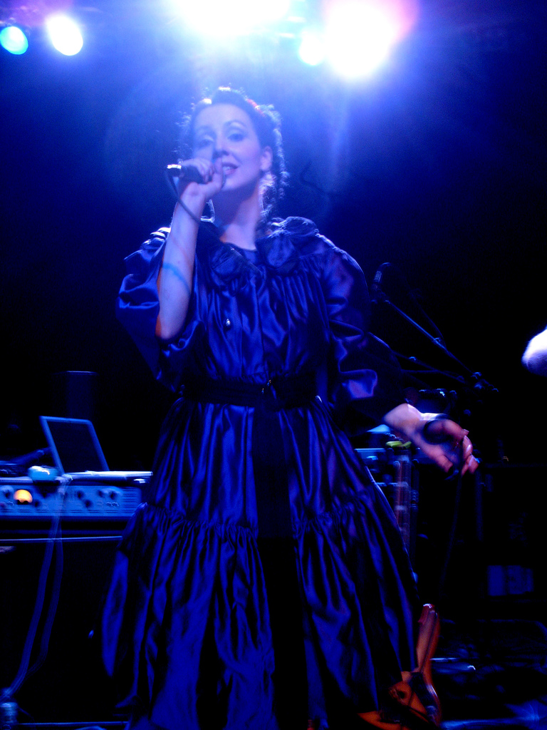 Picture of singer Kate Havnevik taken with a Sony DSC-P200